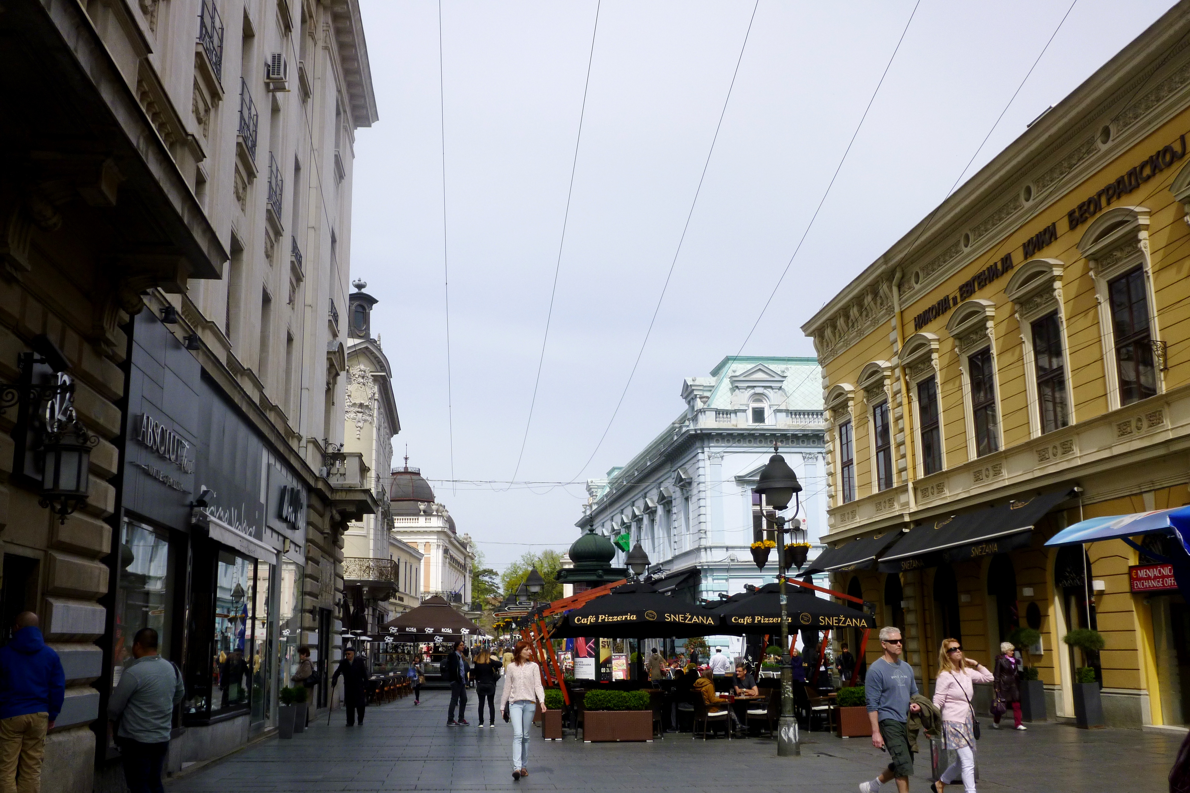 Knez Mihailova (Prince Michael) street in Belgrade (Serbia)